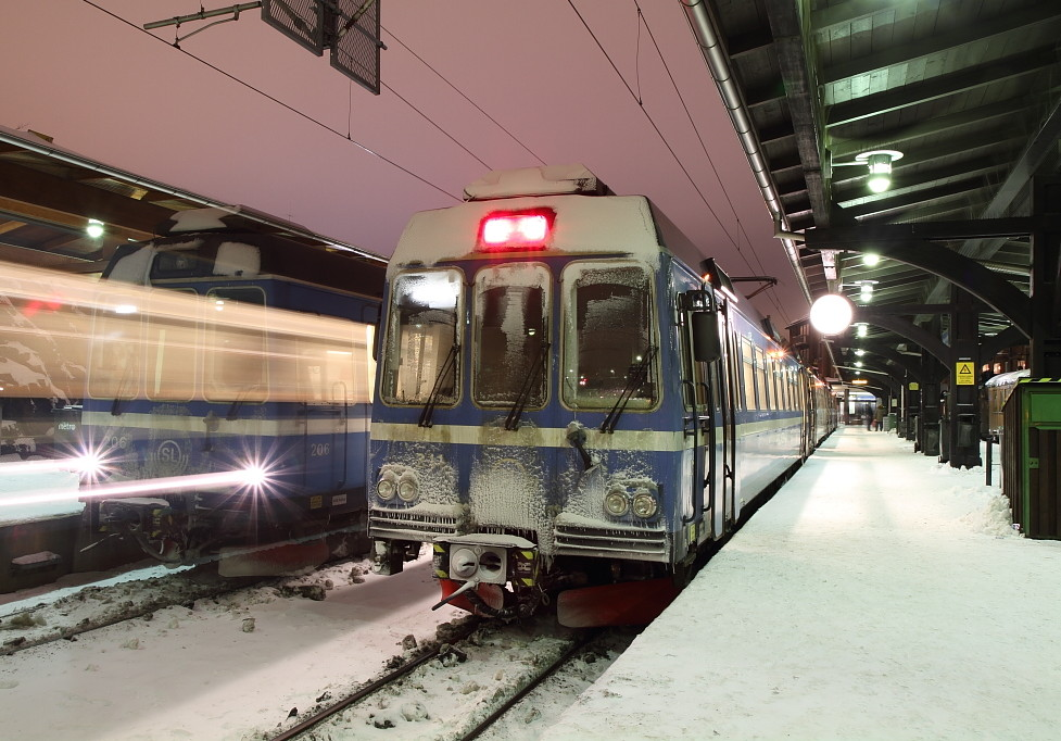 An X10p Train Departing On Track 4 During The Winter Night At Östra Station Sweden on Roslagsbanan with a train that has recently arrived on track 3. Roslagsbanan is the last active narrow gauge railway in Sweden